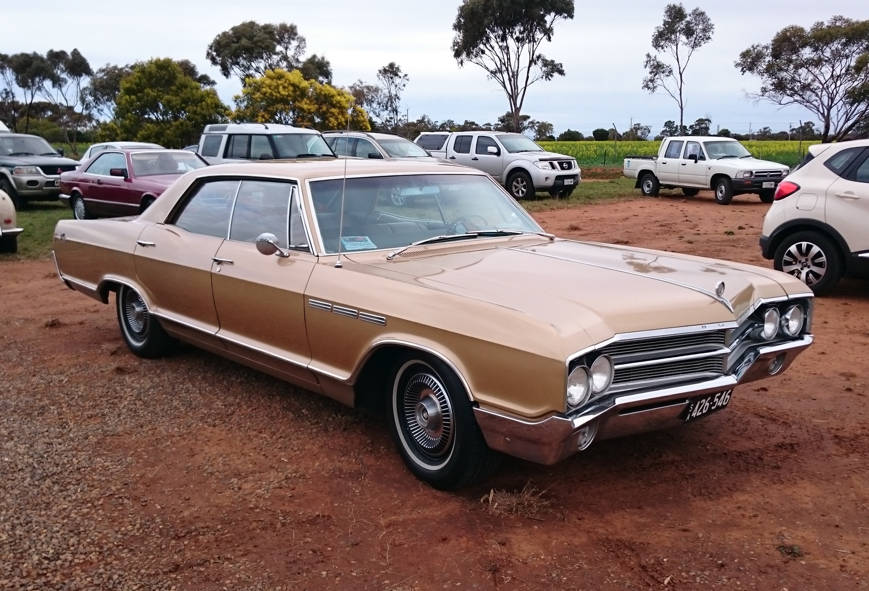 1965 Buick LeSabre 4-door Hardtop